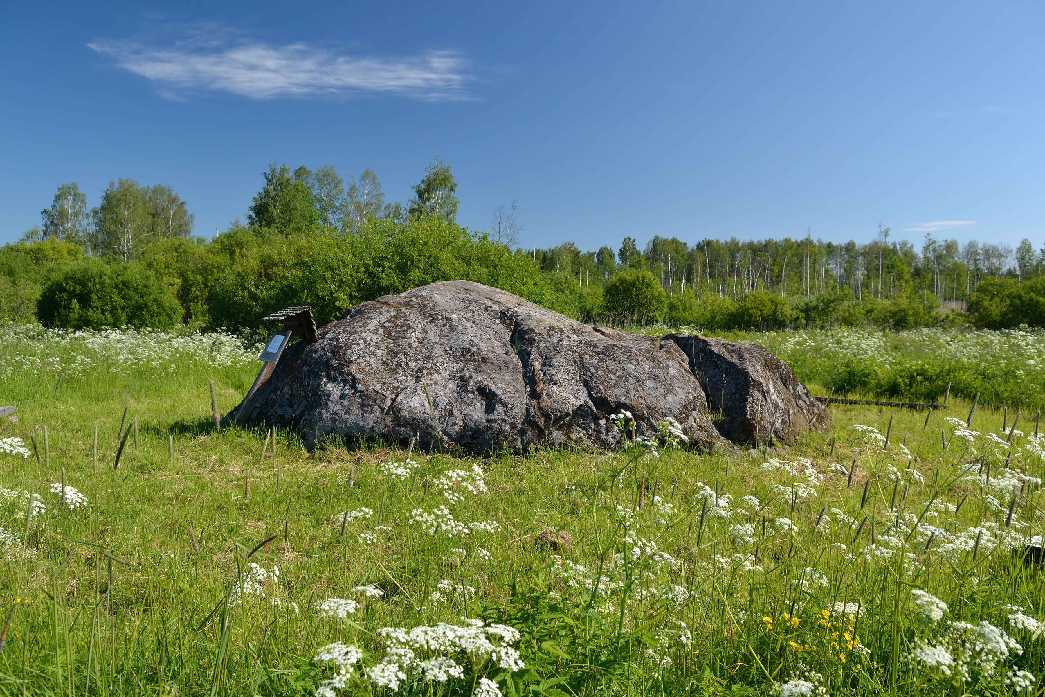 Glacial erratic in Pikkjärve village